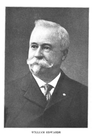 American businessman and sportsman from Cleveland, Ohio